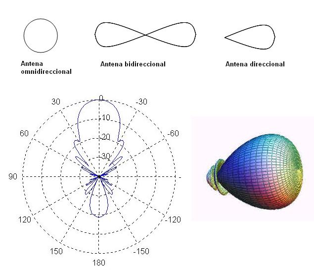 General radiation diagram.